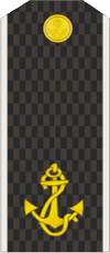 Rank insignia of the Russian Federation´s armed forces (1994–2010), here Sea war fleet (Navy) "Kursant” (OR1) – shoulder strap everyday uniform.